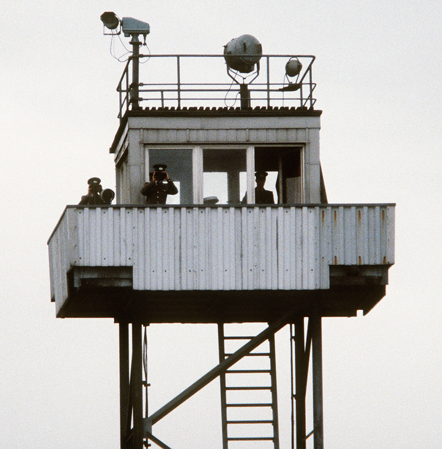 East German border guards man a guard tower at the border between East and West Germany (cropped version of original photo).